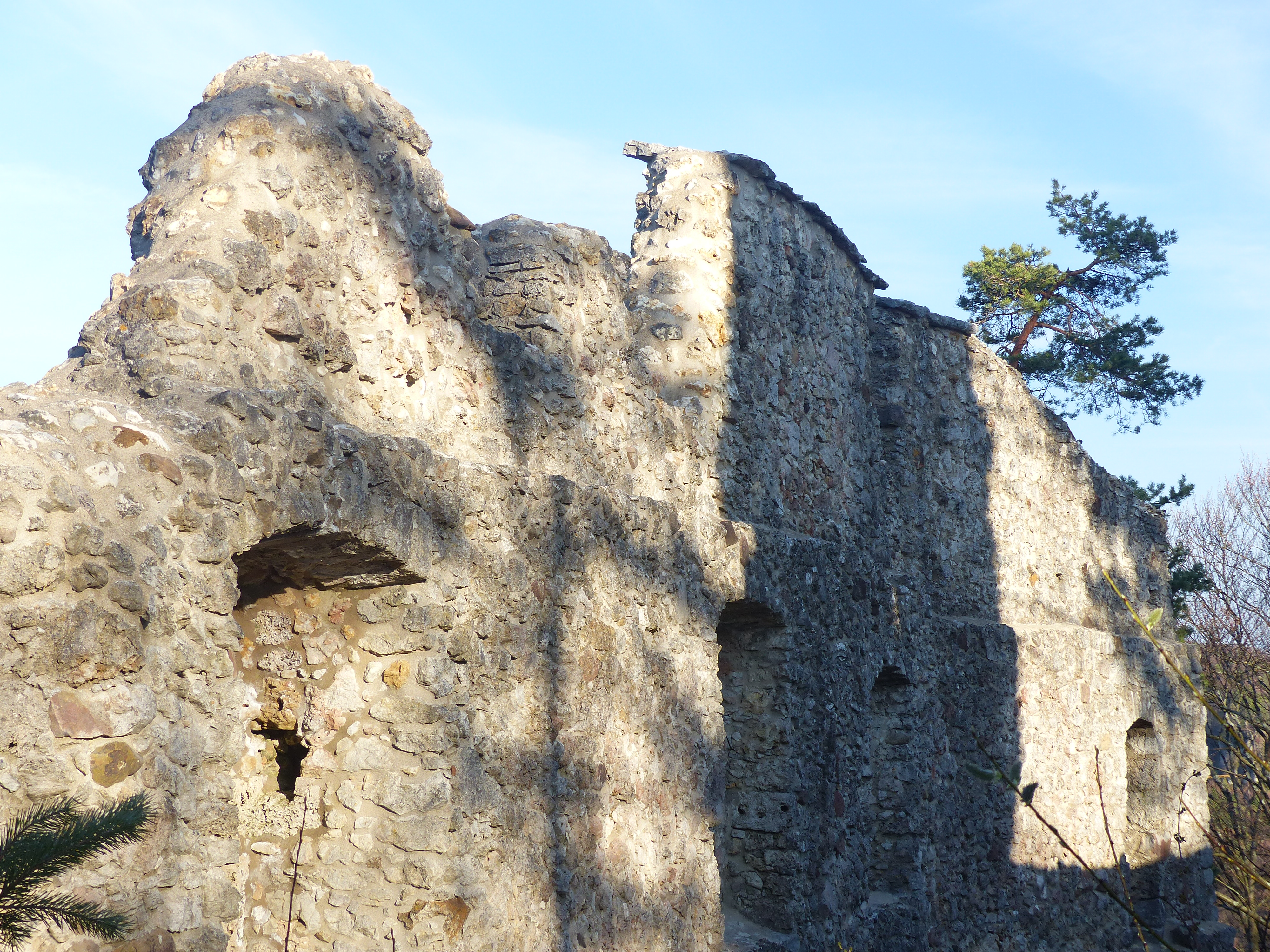 The outer palas wall of the Wildenfels Castle ruins near the village Wildenfels, a district of the municipality Simmelsdorf